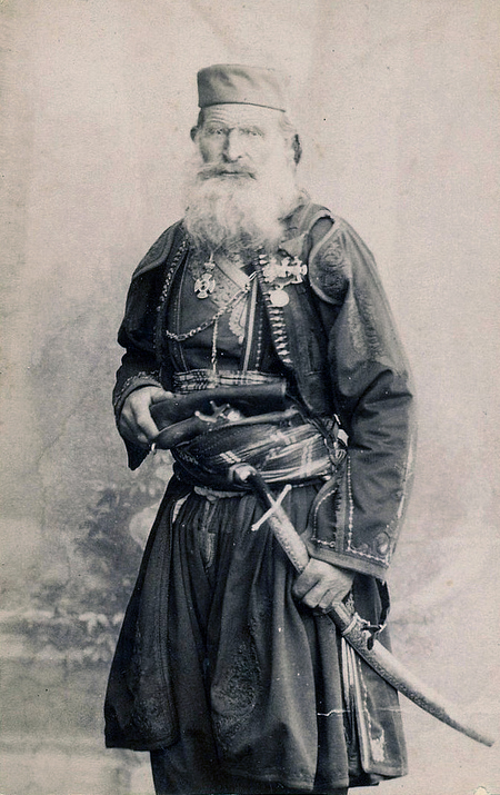 Leader Heroe of Herzegovina Uprising